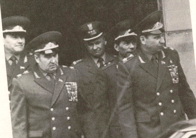 May 1980. Military representatives go to a Warsaw meeting of the Political Consultative Committee of the Warsaw Pact. Warsaw Pact Commander-in-Chief Marshal of the Soviet Union Viktor Kulikov (second left), Chief of the General Staff of the USSR Armed Forces Marshal of the Soviet Union Nikolai Ogarkov (right), and Polish colonel (center)